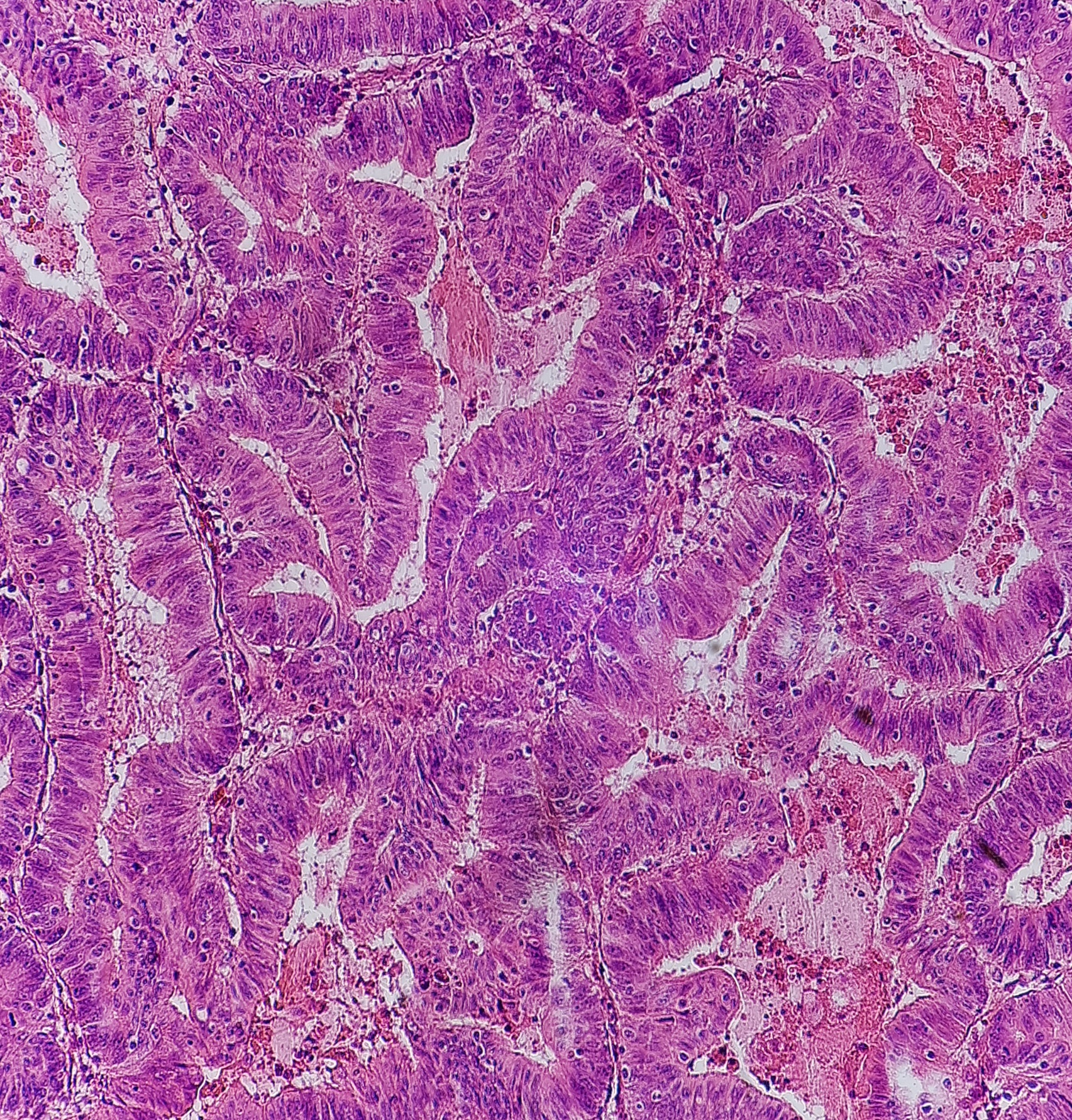 Micrograph of colorectal carcinoma, not otherwise specified.